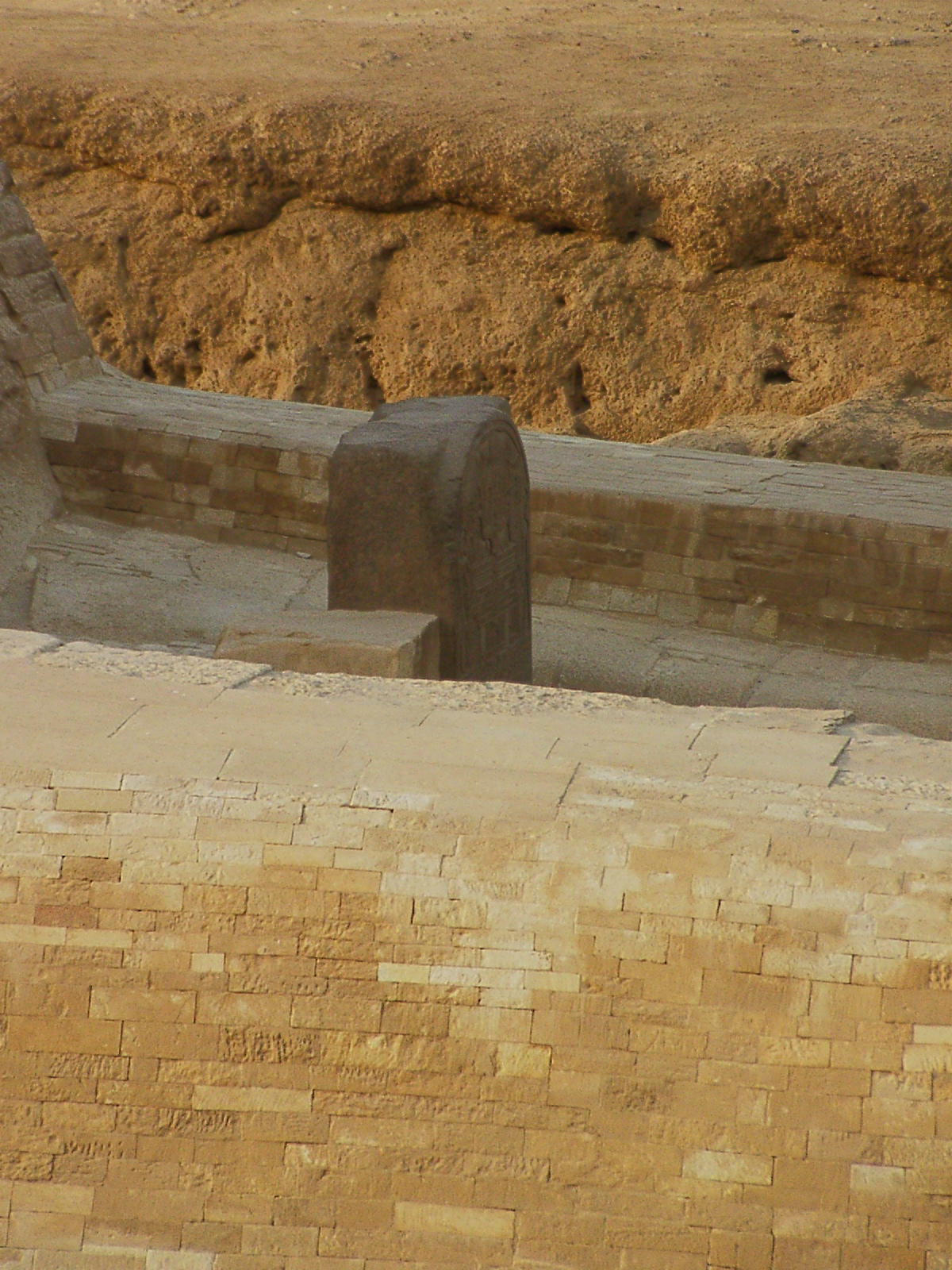 Dream-stela by Thuthmosis IV between the forepaws of the Great Sphinx